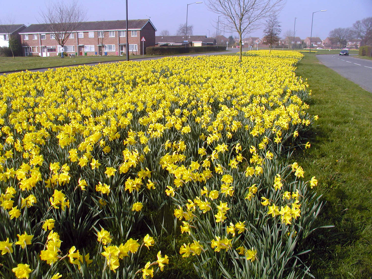 Daffodils in spring, lining the central reservation on Rodford Way in Yate. Photographed by Adrian Pingstone in March 2003 and released to the public domain.